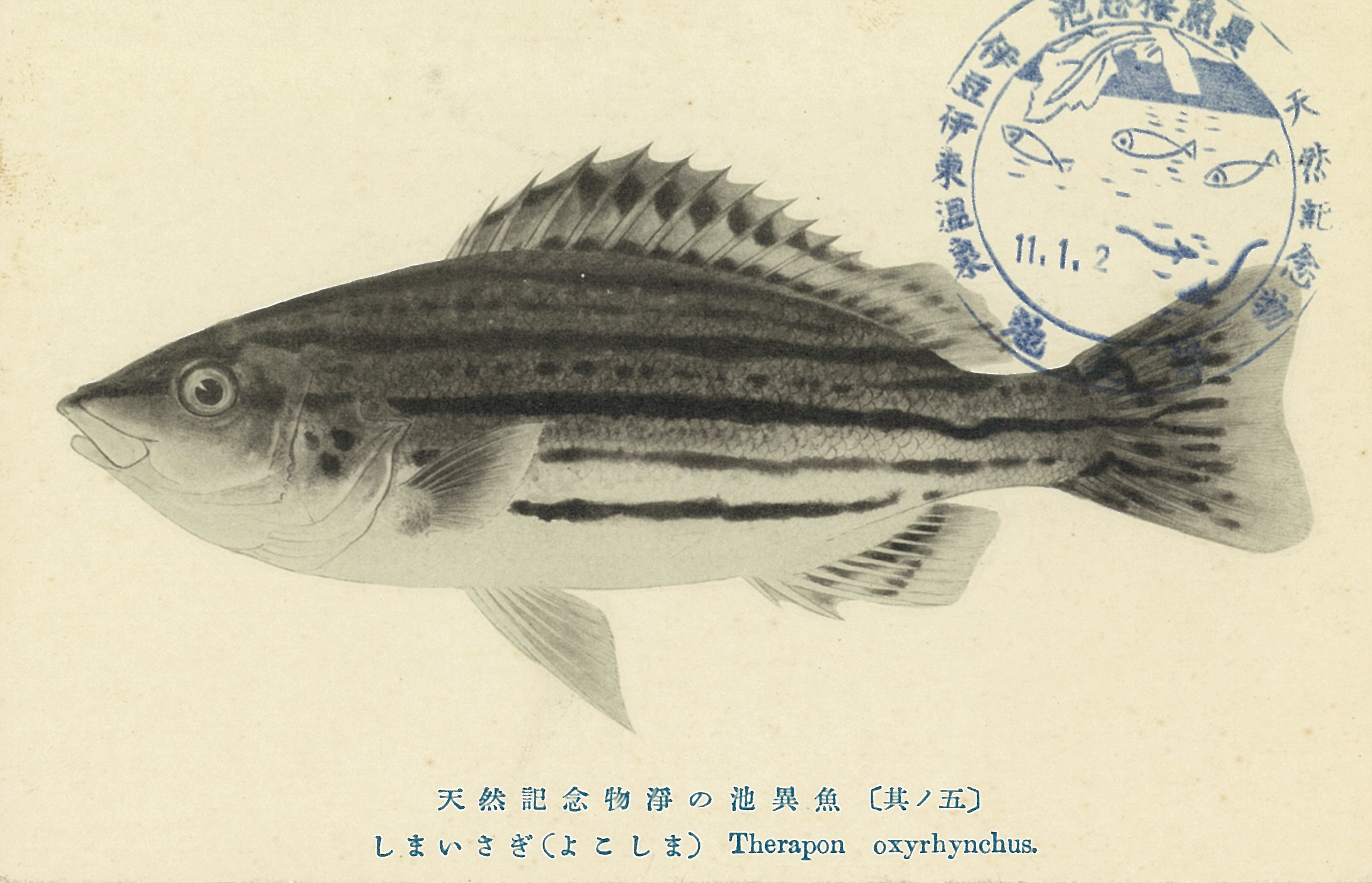 Jono-ike pond postcard. Rhynchopelates oxyrhynchus.1936